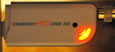 USB TV tuner